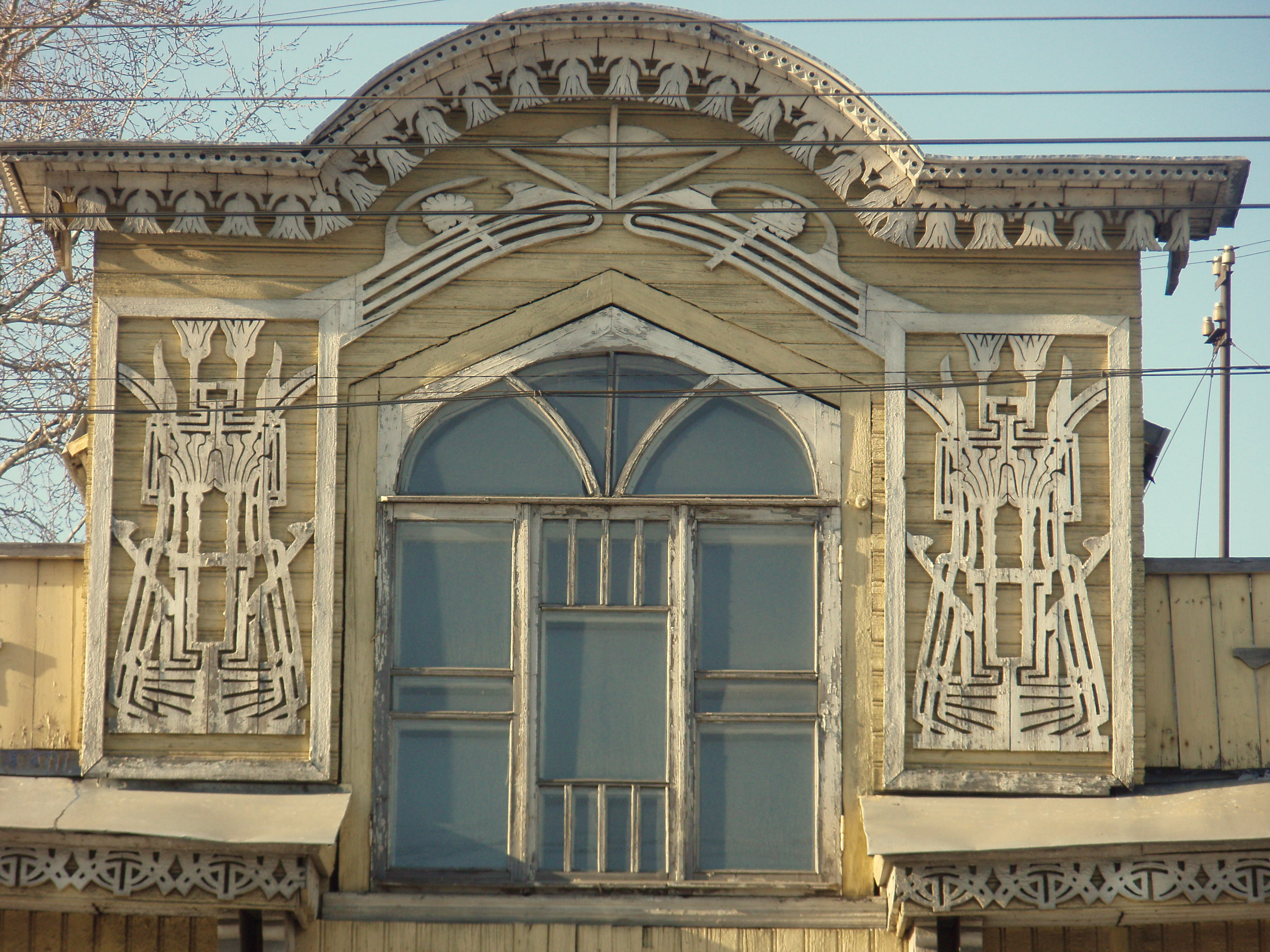 Mezzanine of Zernov's house in Vologda